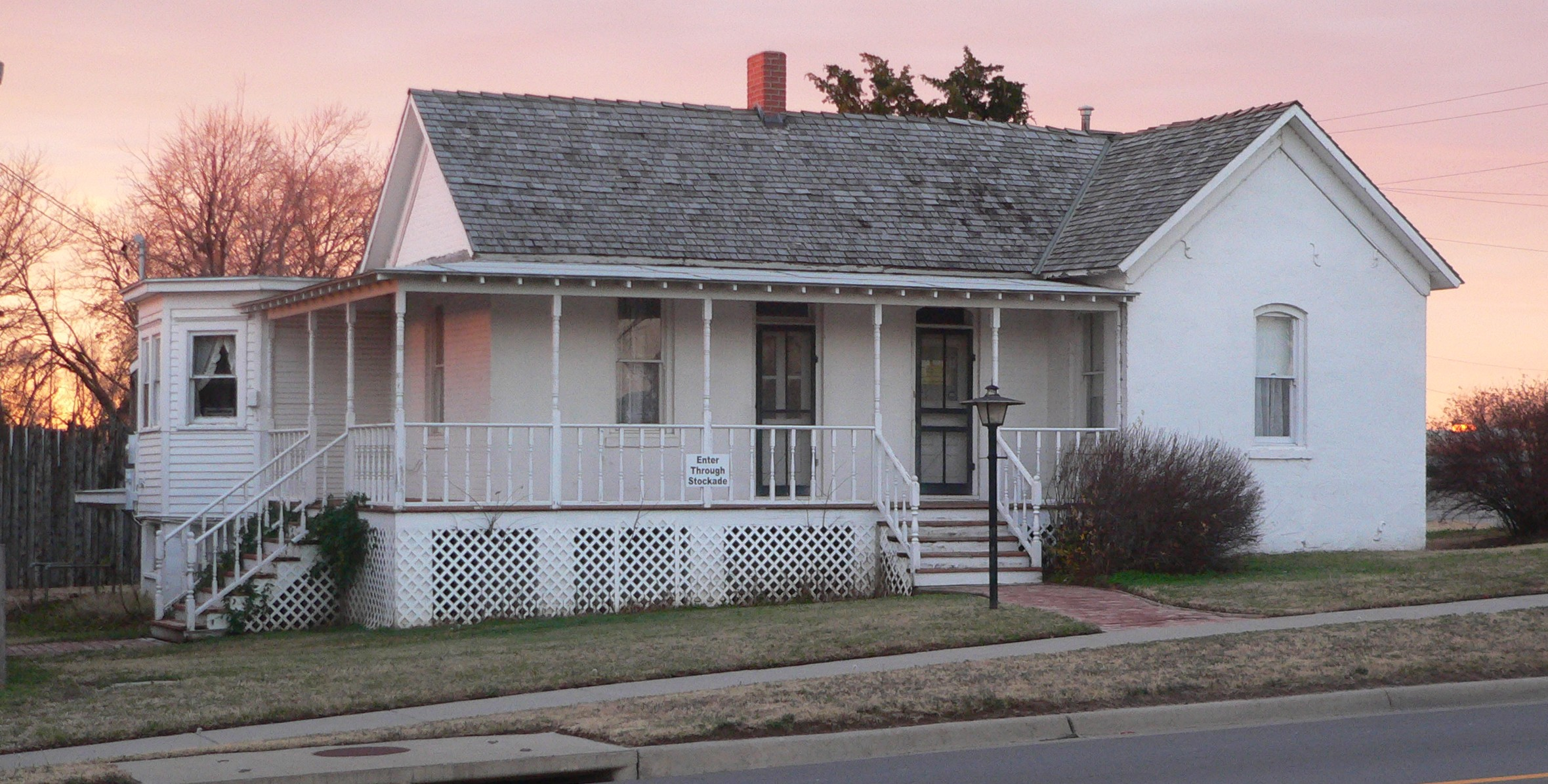 Carry A. Nation house, at southeast corner of Fowler and Oak Streets in Medicine Lodge, Kansas; seen from the northeast.